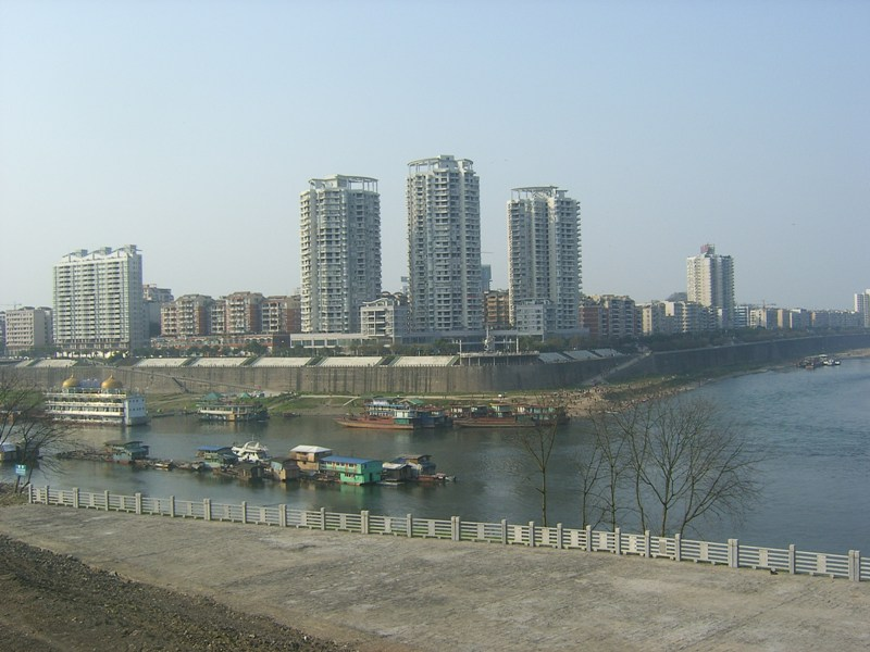 A review of Hechuan city at the meeting point of Jialing river and Fu river.The photo was taken by Mr Chen Hualin on February 22,2007.